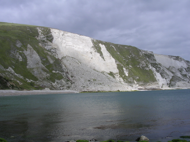 Cliffs below Cockpit Head, Mupe Bay. Bindon Hill is a chalk ridge that stretches from Lulworth Cove in the west to this point where it forms a cliff slowly falling into the sea at the northern extreme of Mupe Bay. It is marked as "Cockpit Head" on the MoD information boards alongside the range walks. The cliff fall depicted in the centre of the photo is fairly recent, exposing fresh white chalk and causing the coastal footpath above to be rerouted a little further inland.